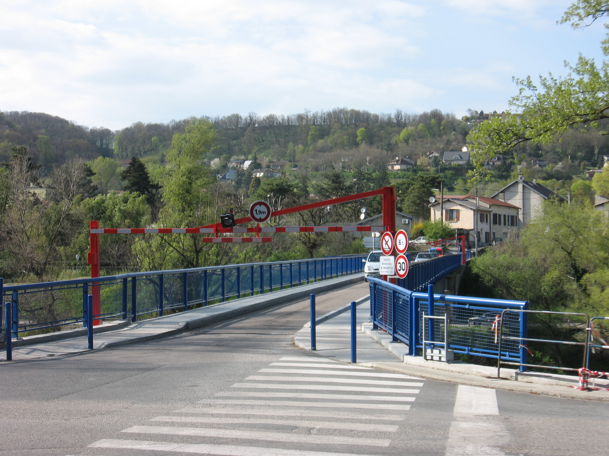 bridge Miribel, near Lyon